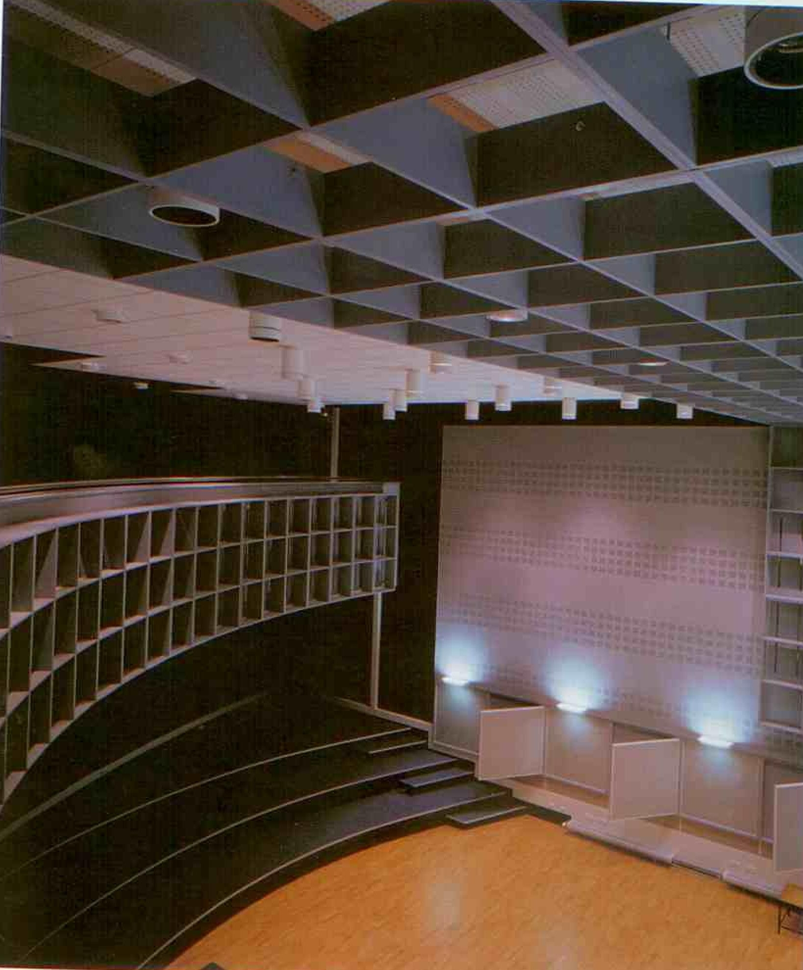 This work is free and may be used by anyone for any purpose. If you wish to use this content, you do not need to request permission as long as you follow any licensing requirements mentioned on this page.